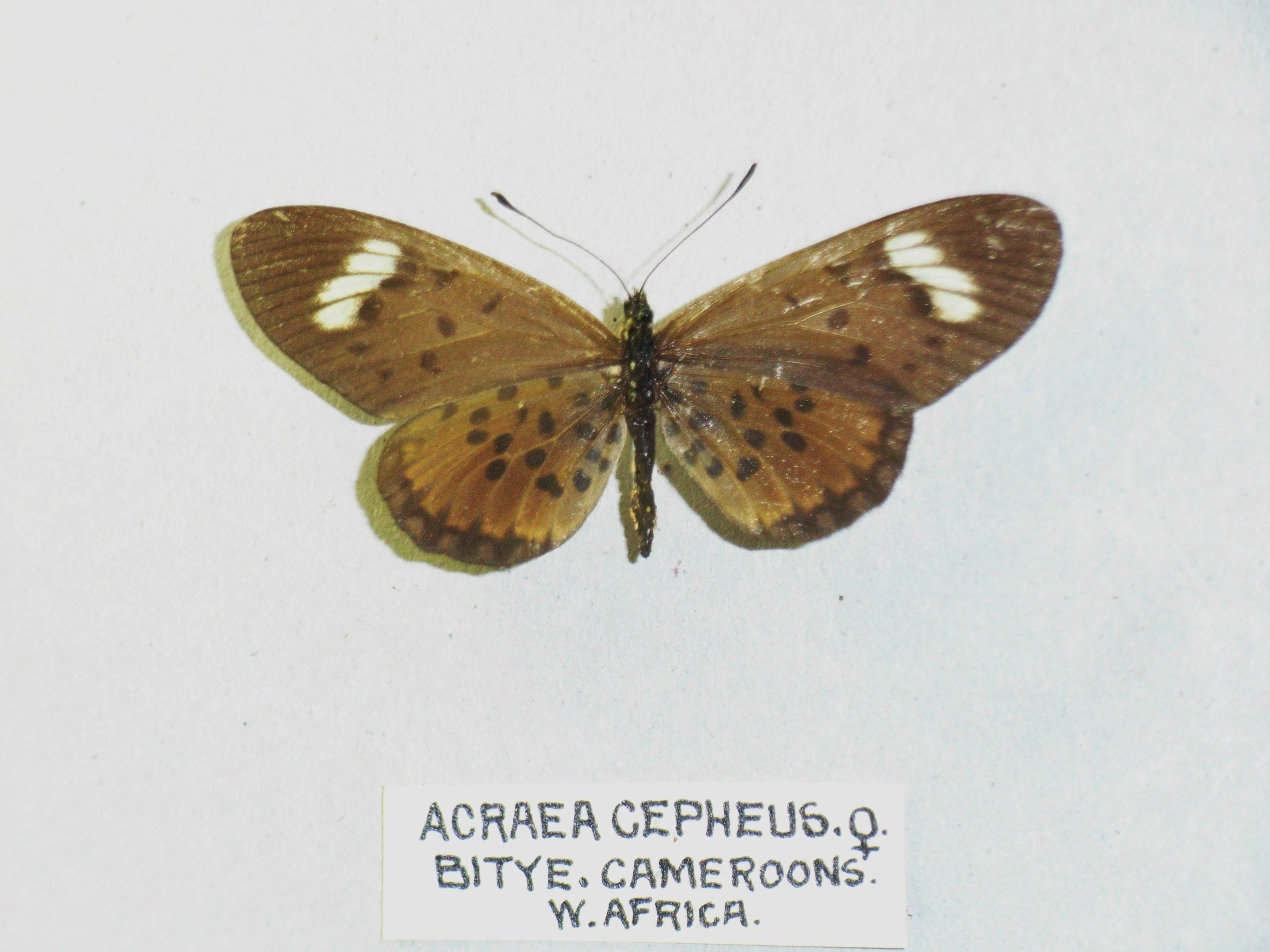 Acraea cepheus:Acraeinae:Nyymphalidae